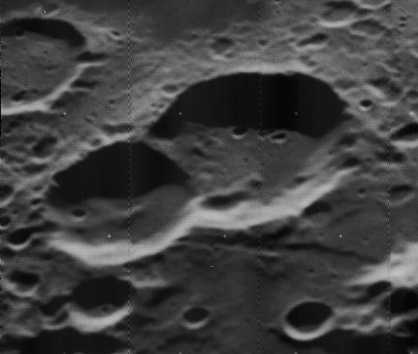 Oblique view of McNair (left) and Jarvis (right), on the far side of the moon, facing west.